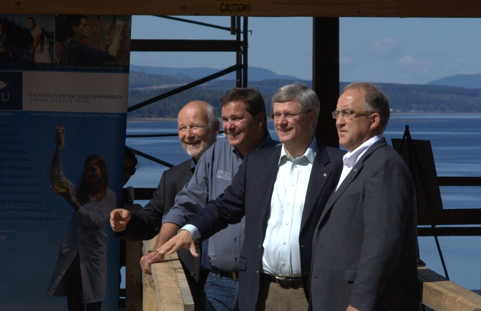 at entrance ~ Right to Left: Dr. James Lunney (Nanaimo MP), Brian Kingzett (Site Manager), Prime Minister Stephen Harper and VIU President Ralph Nilson.